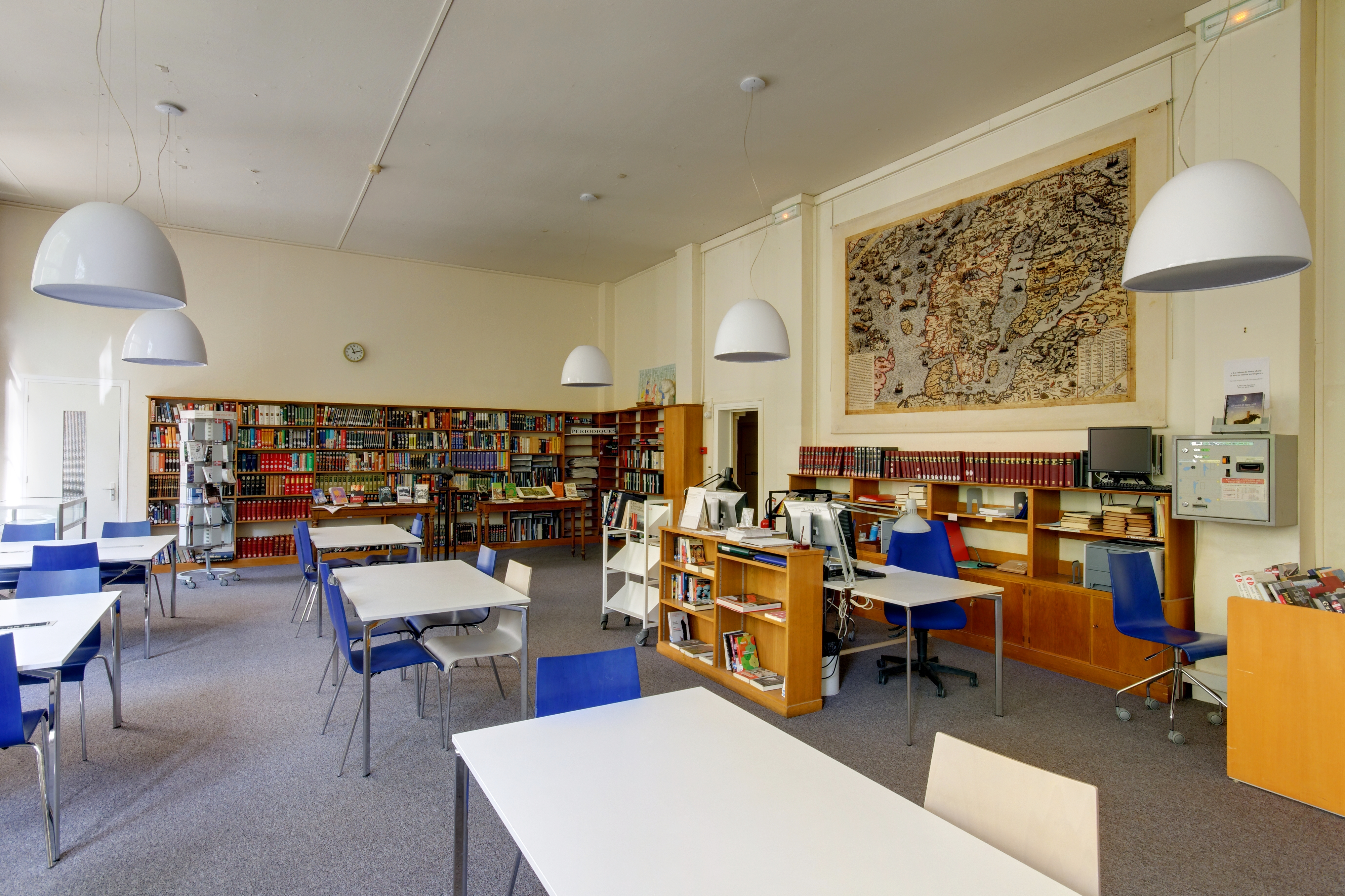 Reading room of the Nordic Library, Bibliothèque Sainte-Geneviève, Paris.